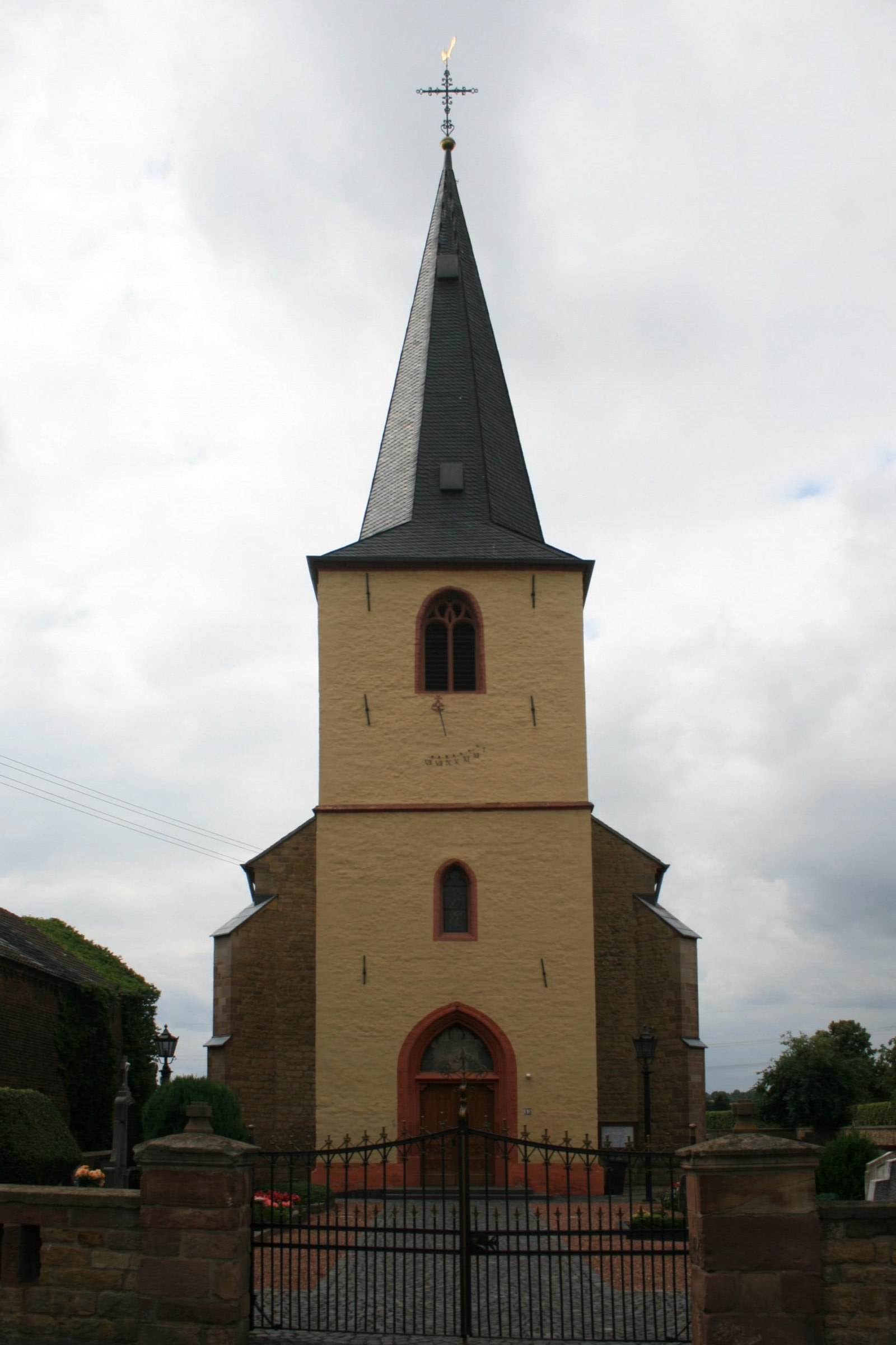 Cultural heritage monument No. 073 in Nideggen